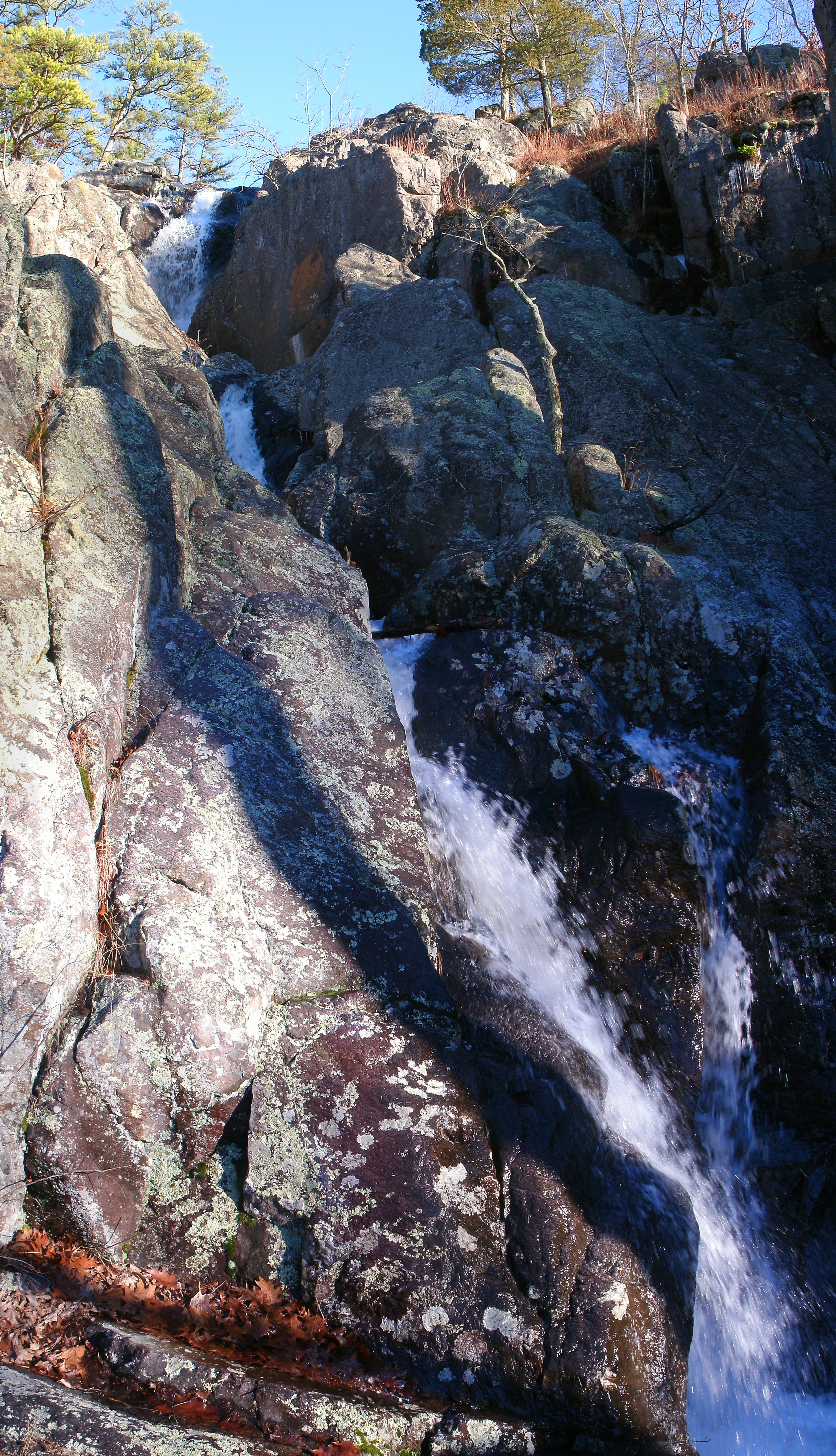 Mina Sauk Falls in Taum Sauk Mountain State Park is the highest waterfall in the US state of Missouri. The falls drop a total of 132 feet (40 meters) in a series of three cascade in times of wet weather. This is a composite of four shots stacked vertically and stiched with hugin.